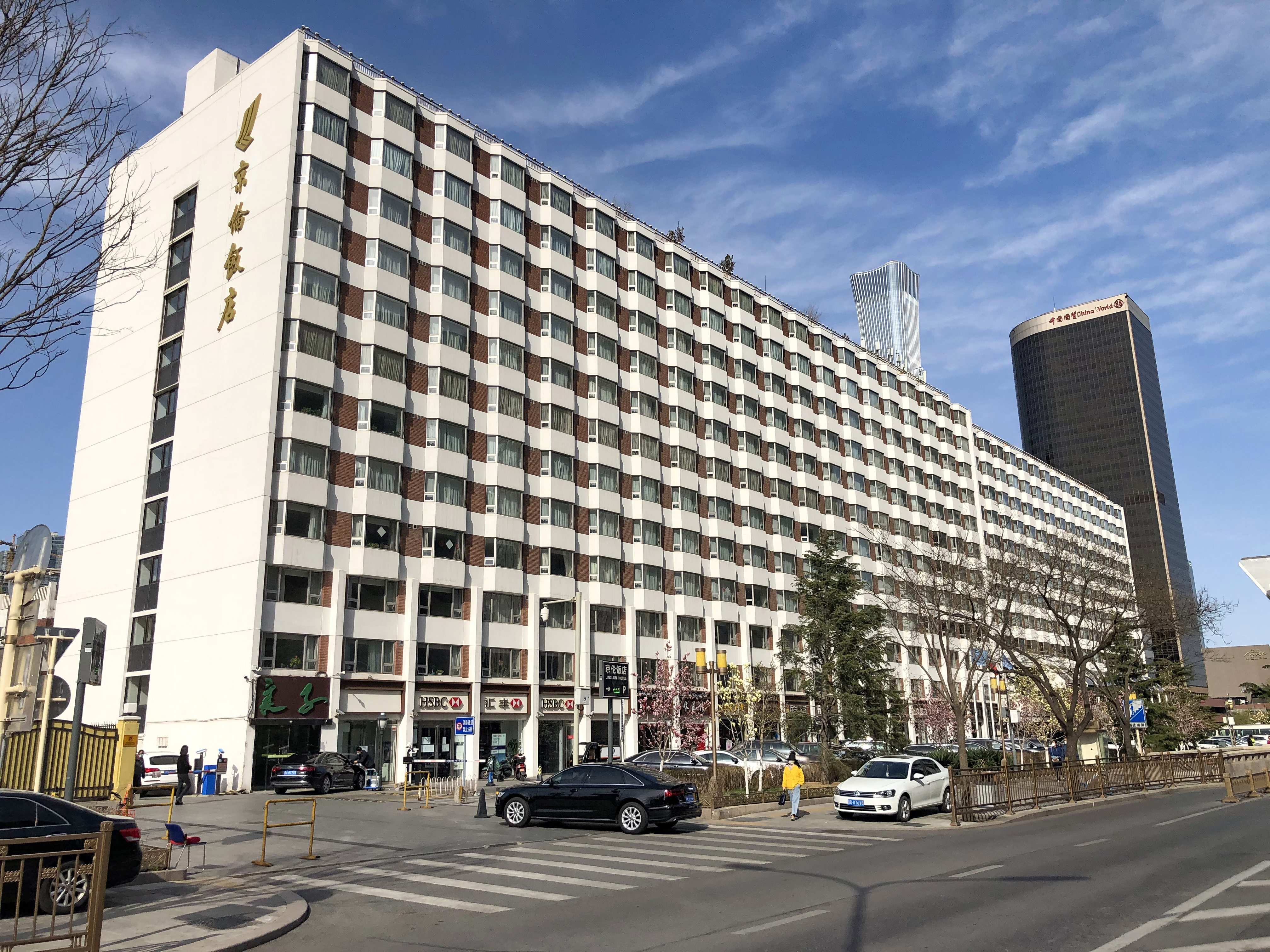 Just west of International Trade Center.